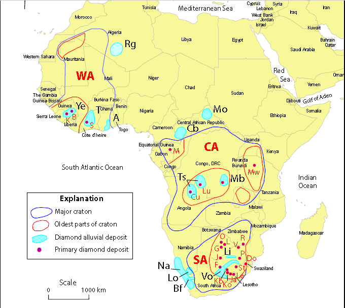 Cratons: CA-Central African (Kasai), South African (Kalahari), WA-West African, Alluvials and Bodies: A-Akwatia/Birim, B-Banankoro, Bf-Buffels River, Cb-Carnot/Berberati, Cu-Cuango Valley, Do-Dokolwayo body, F-Finsch body, G-Gope body, J-Kwaneng body, Ja-Jagersfontein body, k-Koidu body, Kb-Kimberley bodies, Ko-Koffiefontein body, L-Letlhakanebody, Le-Letseng body, Li-Lichtenburg, Lo-Lower Orange River, Lu-Lunda bodies, M-Mitzic bodies, Mb-Mbuji-Mayi bodies, Mo-Mouka Ouadda, Mw-Mwadui body, Na-Namibia and Namaqualand, O-Orapa body, P-Primier body, R-River Ranch body, T-Tortiya, Ts-Tshkipa, V-Venetia body, Vo-Vaal/Orange Rivers, Ye-Yengema